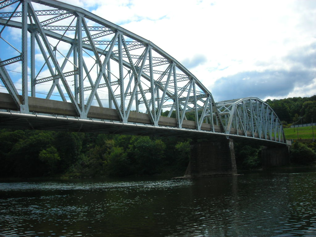 Pennsylvania State Route 127